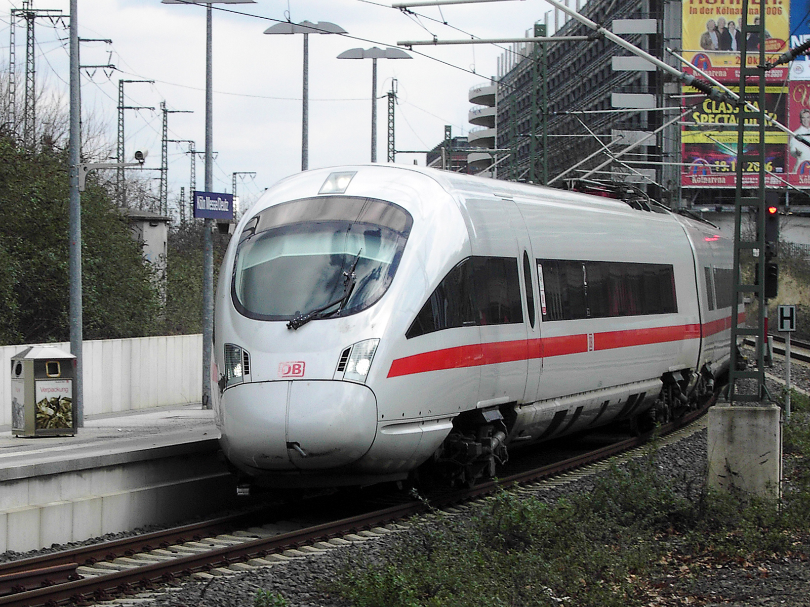 ICE-T2 (second series tilting ICE) at Cologne